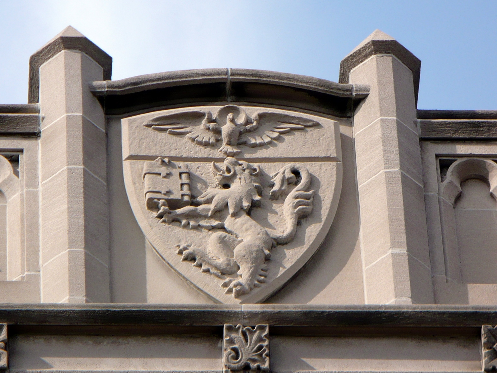 Duquesne University's crest. Part of an architectural detail on Canevin Hall, home to the School of Education.